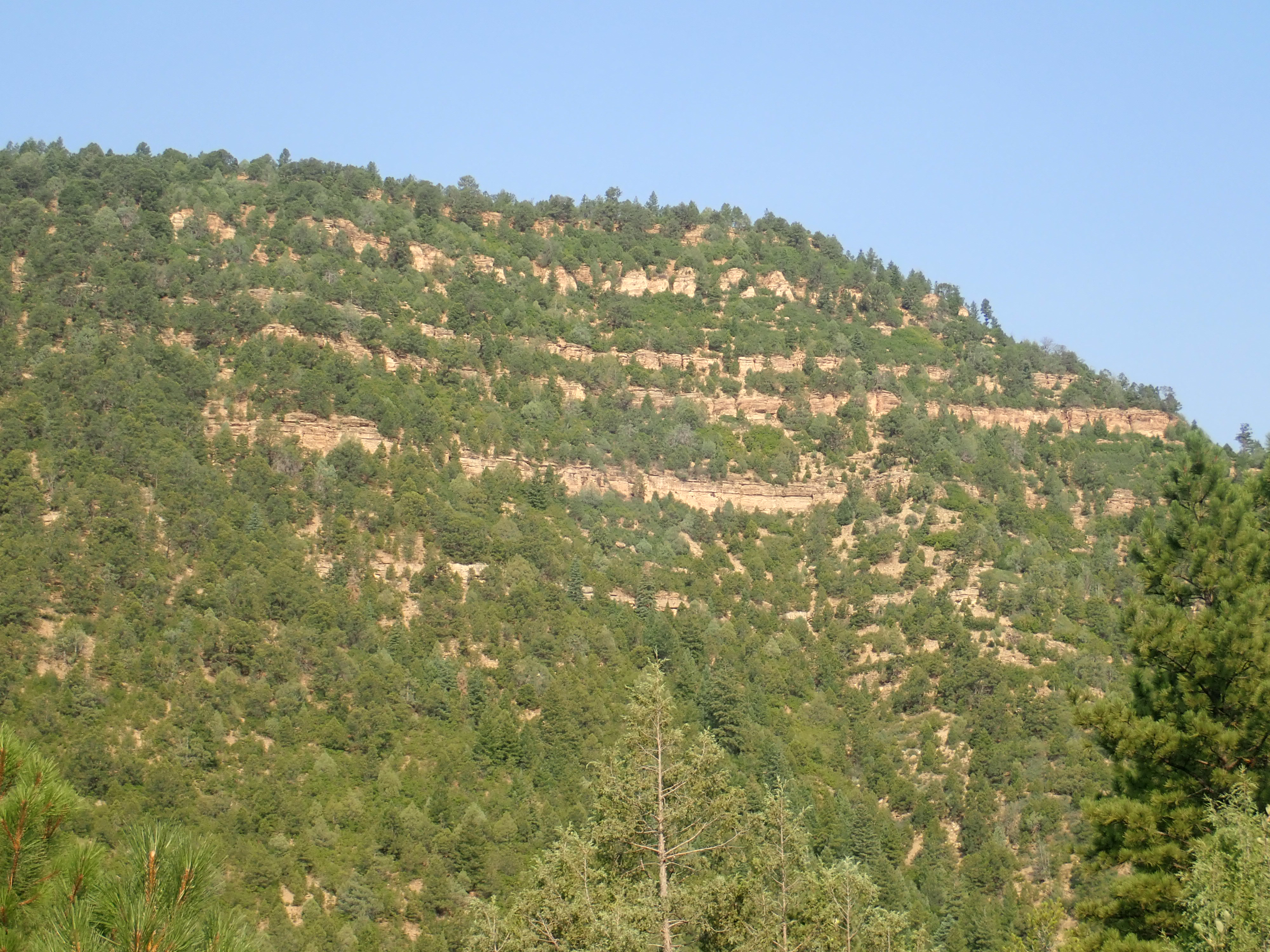 This image shows the La Pasada Formation exposed at its type section at Dalton's Bluff, New Mexico, USA. The very topmost beds in the bluff are the overlying Alamitos Formation. The La Pasada Formation is an early to middle Pennsylvanian marine cyclic limestone and shale formation.